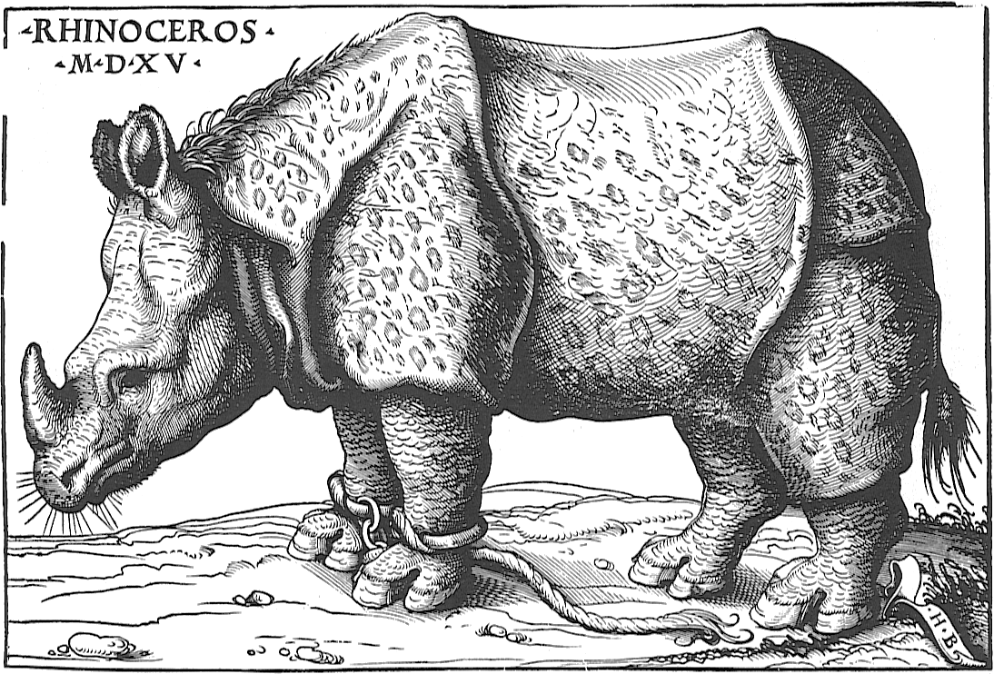 Scan of a book plate of a woodcut after Dürer's Rhinoceros, by Hans Burgkmair, 1515.